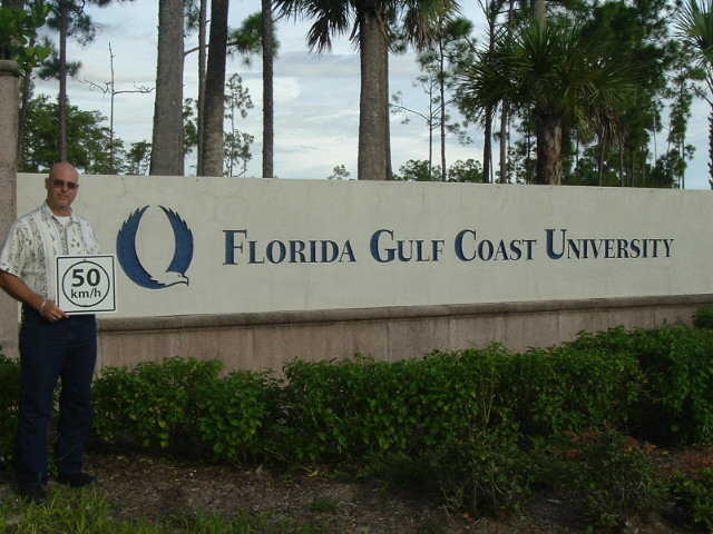 Metric System Speed Limit Signs posted on roads at Florida Gulf Coast University (FGCU)